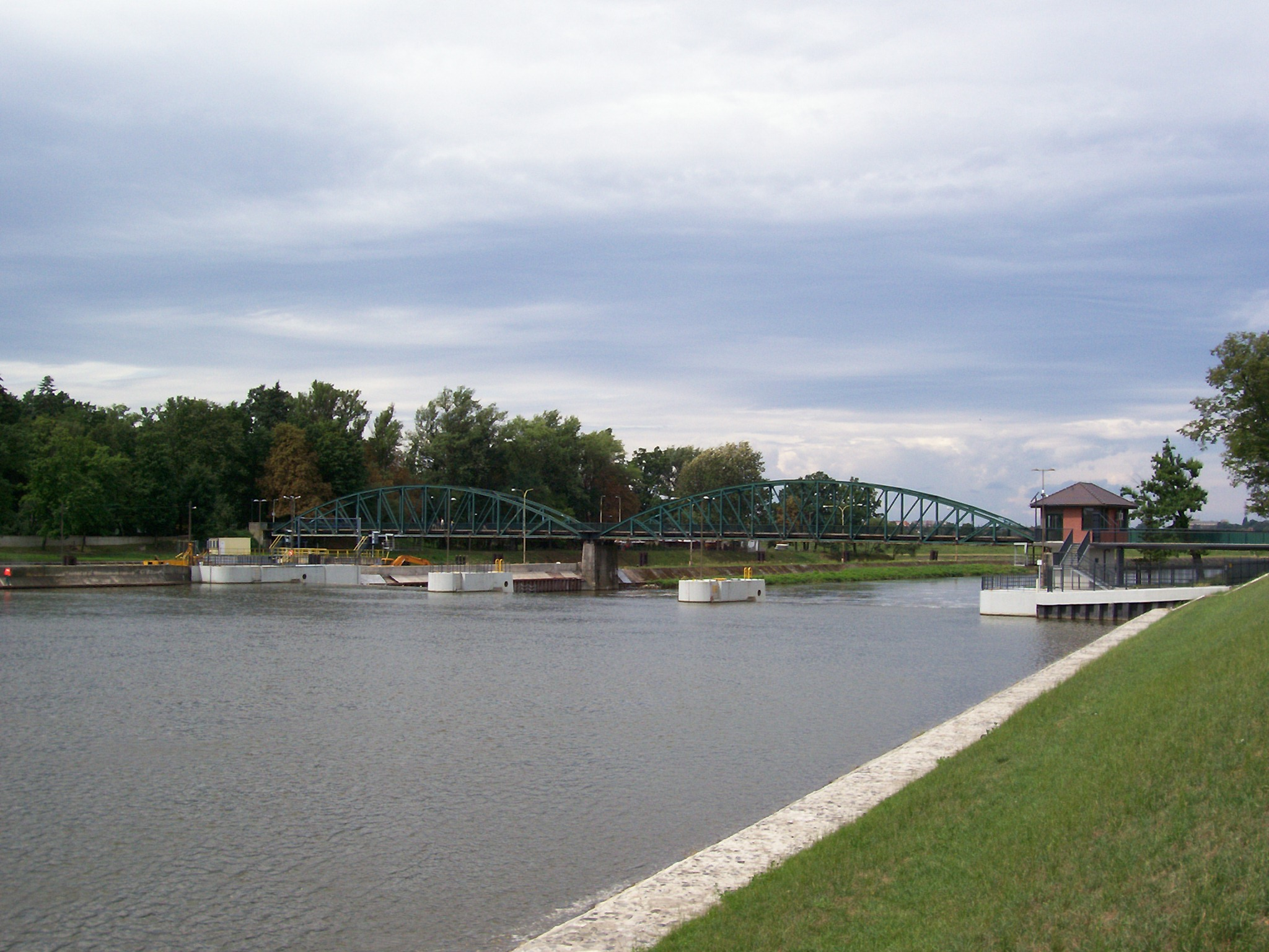 The bridge in Opole (Poland) over the Odra river, near Bolko-Island.